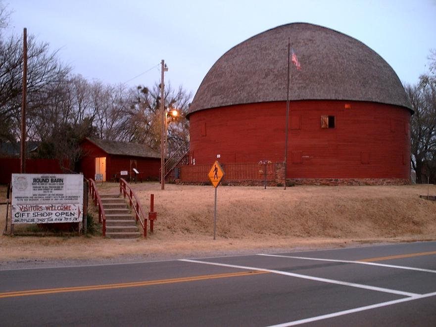 The Arcadia Round Barn is a site on the National Register of Historic Places and is located in Arcadia on Route 66. This photo was taken on the south side of Route 66 looking north.